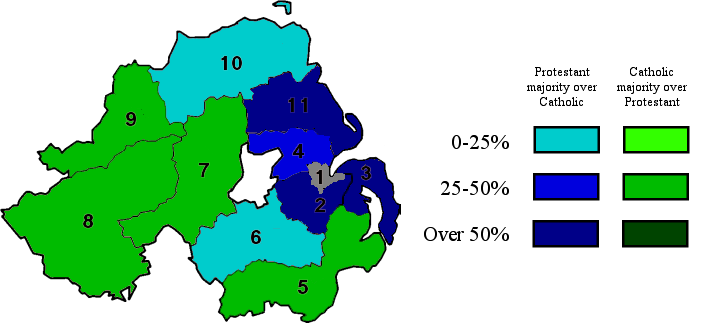 Map of Northern Ireland's selected new council boundaries proposal for 2008/2009, by religion. Legend: Belfast Lisburn City and Castlereagh Ards and North Down Antrim and Newtownabbey Newry City and Down Armagh City and Bann Mid-Ulster Fermanagh and Omagh Derry City and Strabane Causeway Coast Mid-Antrim